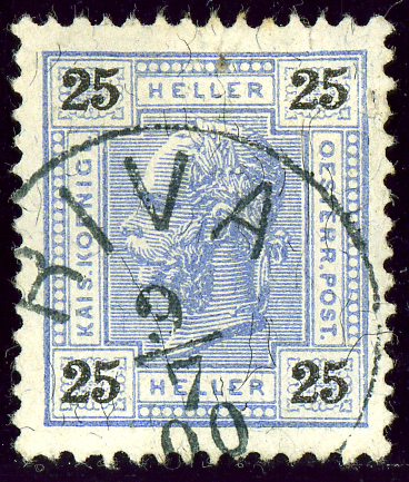 Austrian KK 25 heller stamp, cancelled at RIVA, South Tyrol, Italy, in 1900.